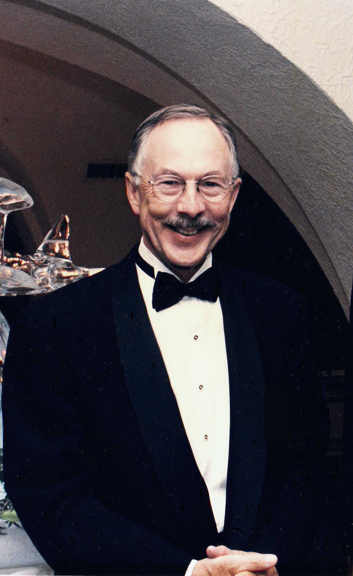 J. George Mikelsons (b. 1938), founder of ATA Airlines, at the Tony Jannus Awards Banquet, St. Petersburg, Florida.